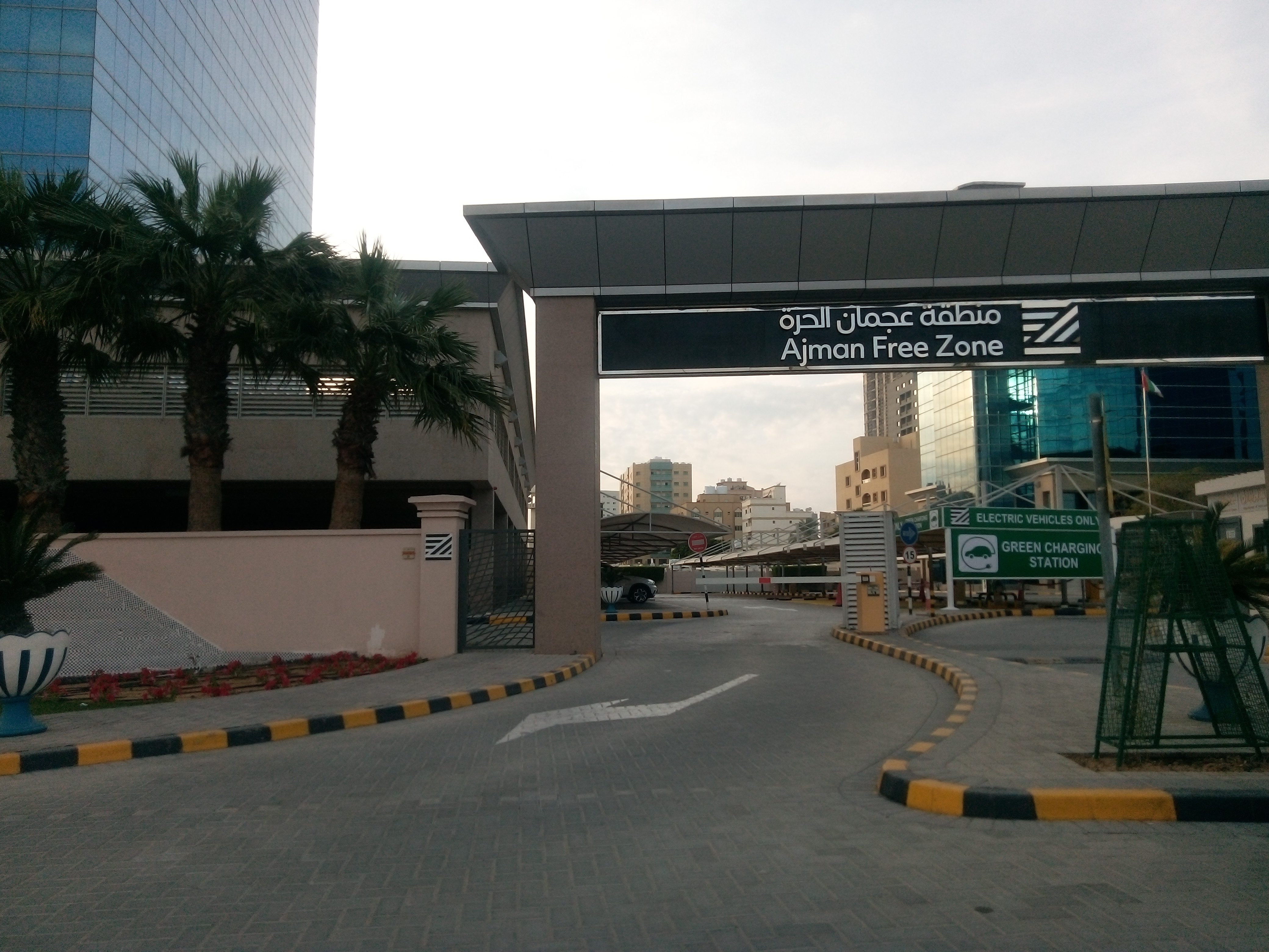 geographical object